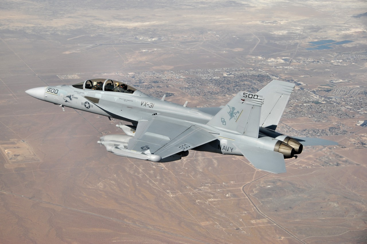 A U.S. Navy Boeing EA-18G Growler of test and evaluation squadron VX-31 flies over the city of Ridgecrest, California (USA), as it returns to NAWS China Lake at the conclusion of a test mission on the Electronic Combat Range (Echo). The Growler is configured with three ALQ-99 jammer pods and two external fuel tanks. VX-31 tested and evaluated new electronic warfare capabilities and systems for the EA-18G that were developed and refined by the scientists and engineers of NAWC-WD. July 2009.